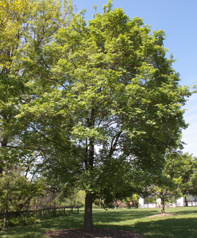 Commendation™ Elm - Ulmus 'Morton Stalwart' Morton Arboretum acc. 274-97-1